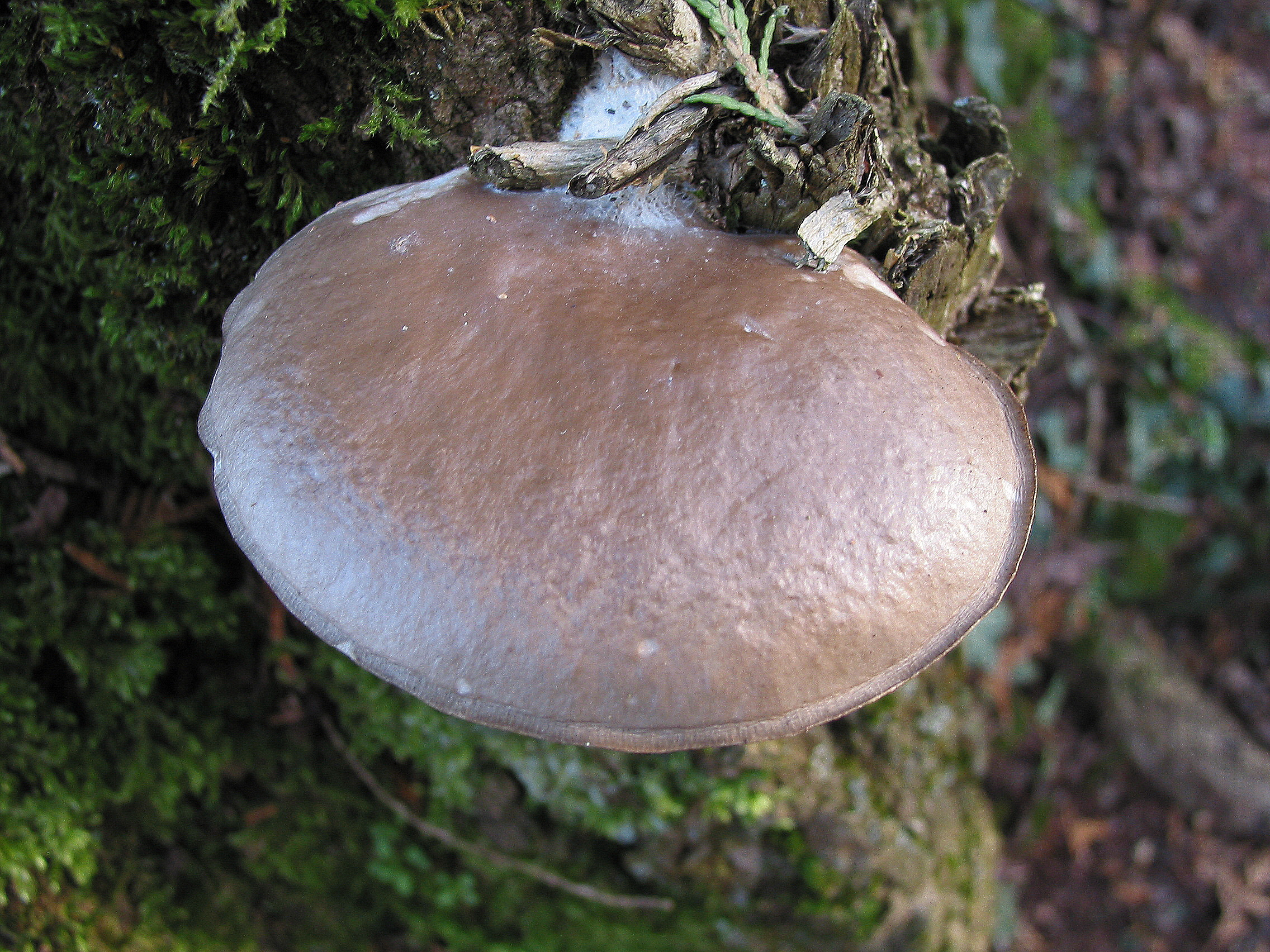 Oyster mushrooms, Jemappes, Belgium